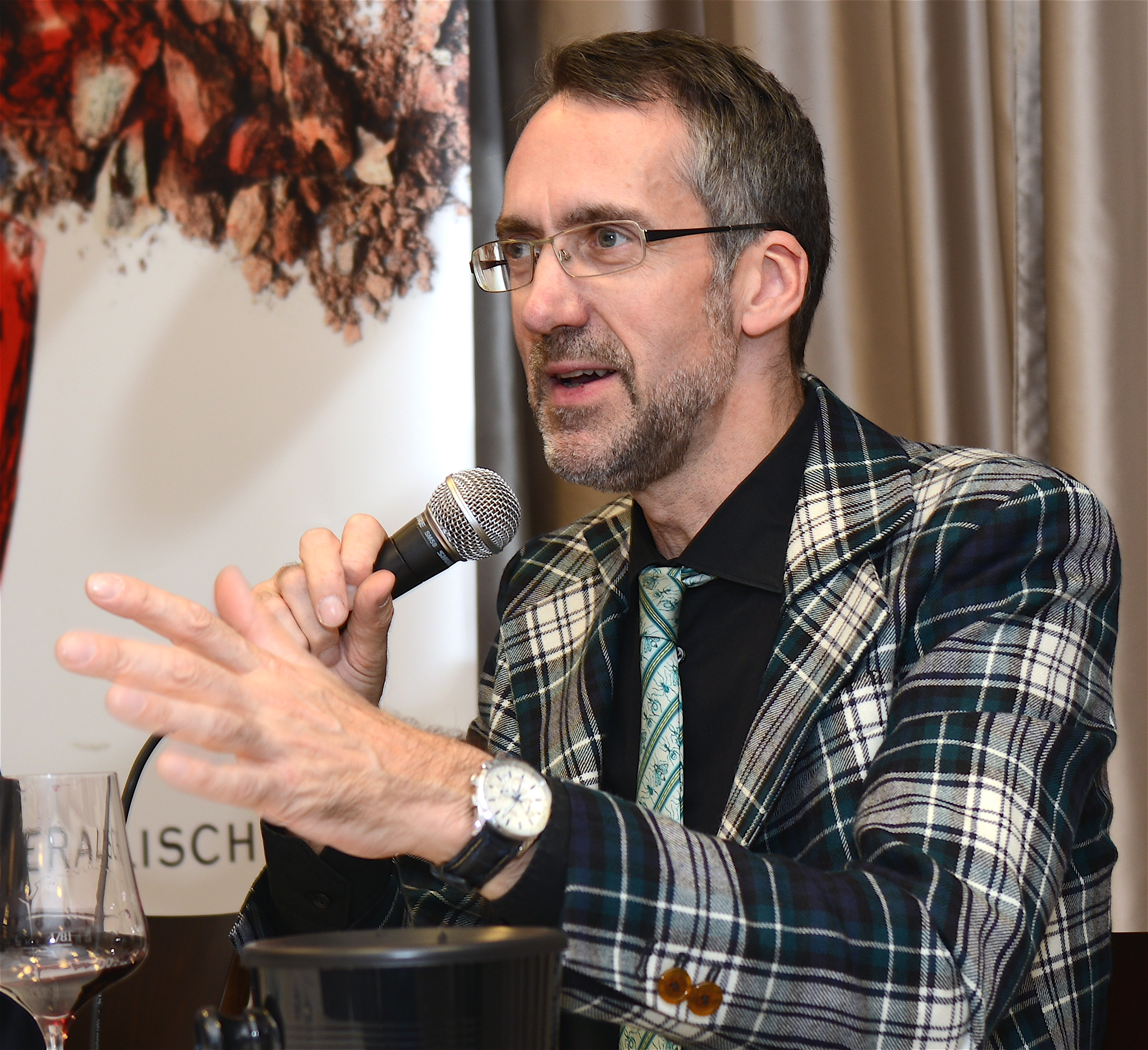 Stuart Pigott, 2014